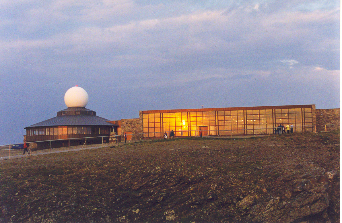 North Cape. Touristic Center